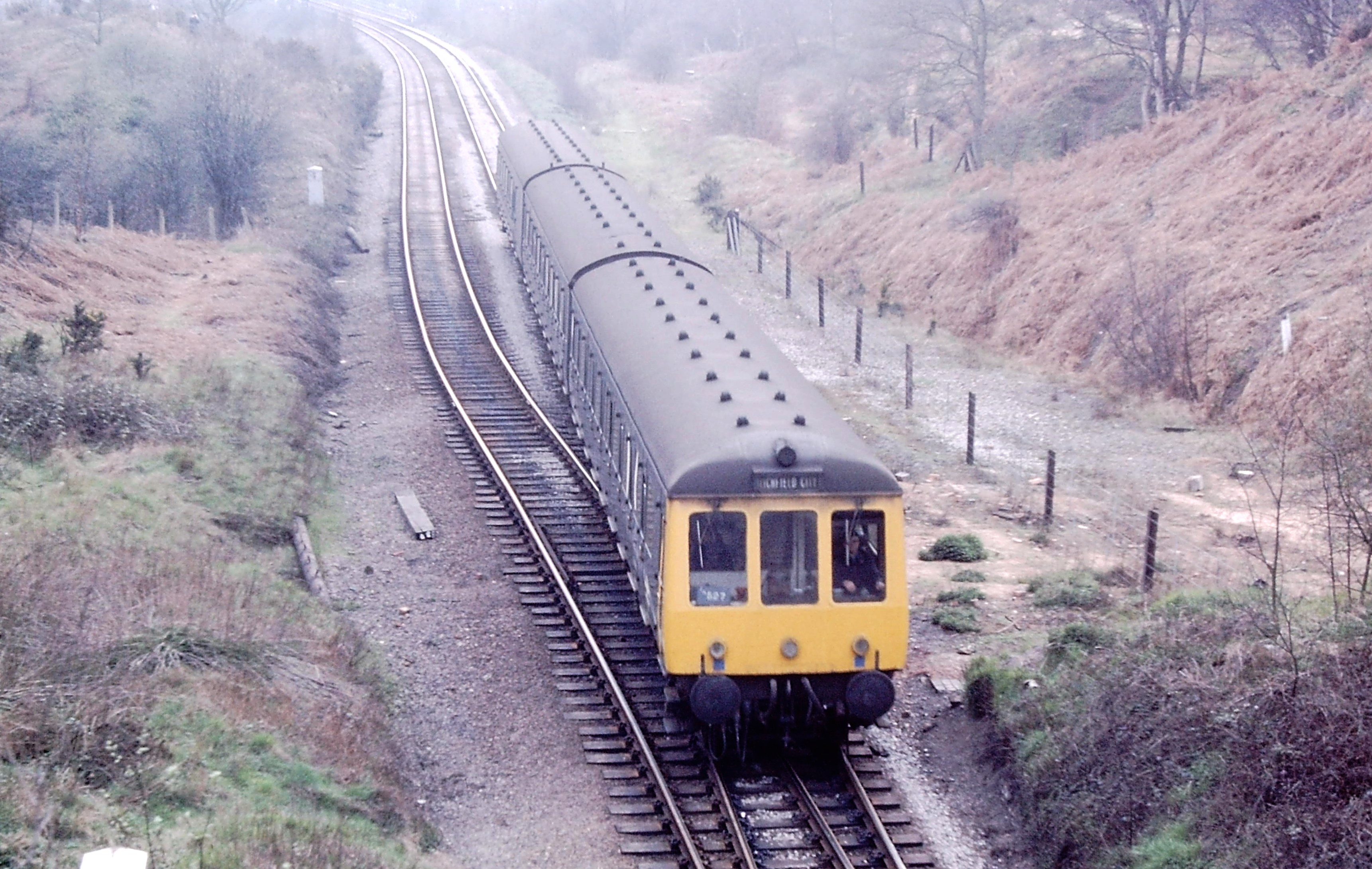 A DMU heads past the site of the former Kenilworth Junction on a day of diverted services 11-04-1976